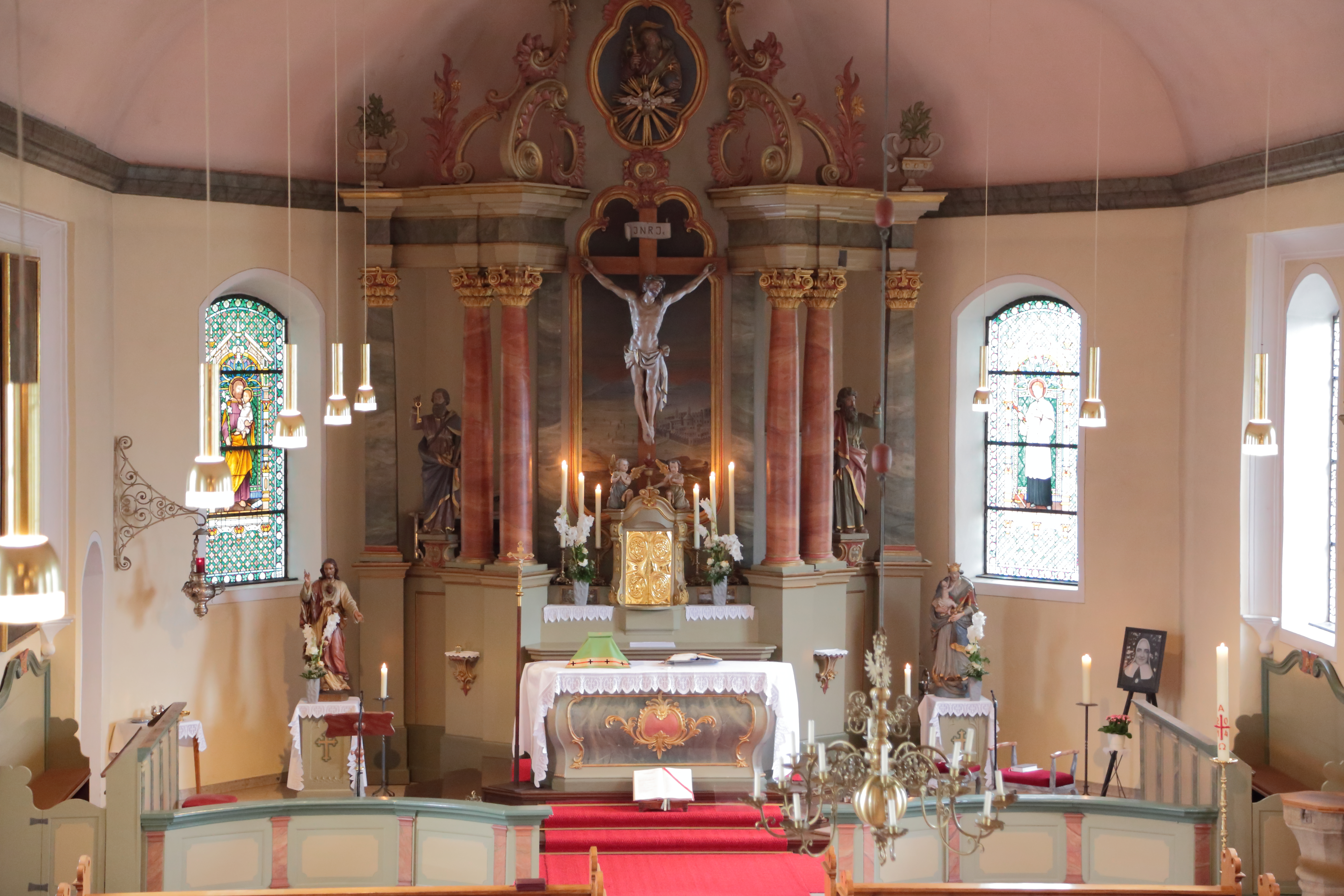 Choir of the Roman Catholic Parish Church St Peter and Paul in Hopsten-Halverde, Kreis Steinfurt, North Rhine-Westphalia, Germany.